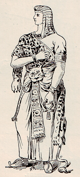 Priest, Egypt c. 1000 BC